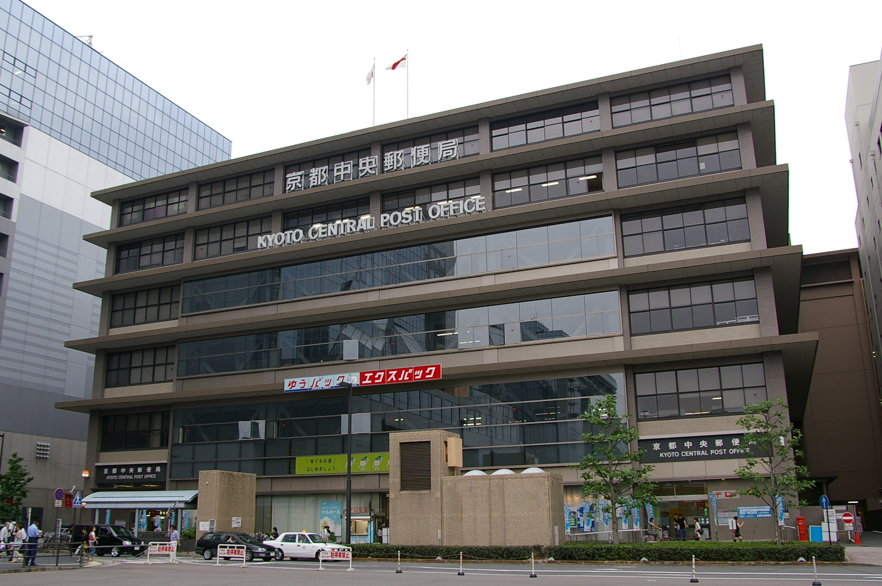 Photograph of Kyoto Central Post Office in Shimogyo-ku, Kyoto, Kyoto Prefecture, Japan.